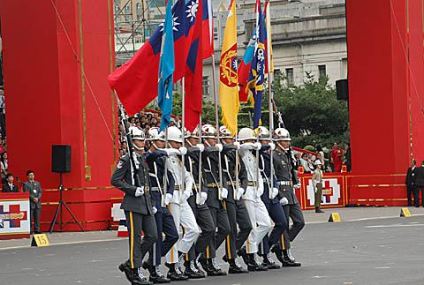 Military parade of The Honor Guard of Republic of China in the 100th anniversary of the Republic of China.